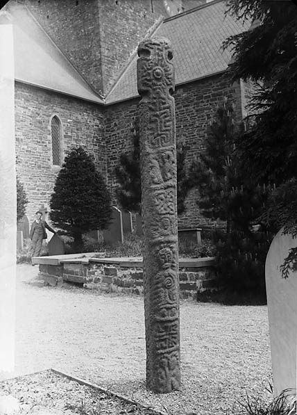 1 negative : glass, dry plate, b&w ; 16.5 x 12 cm.